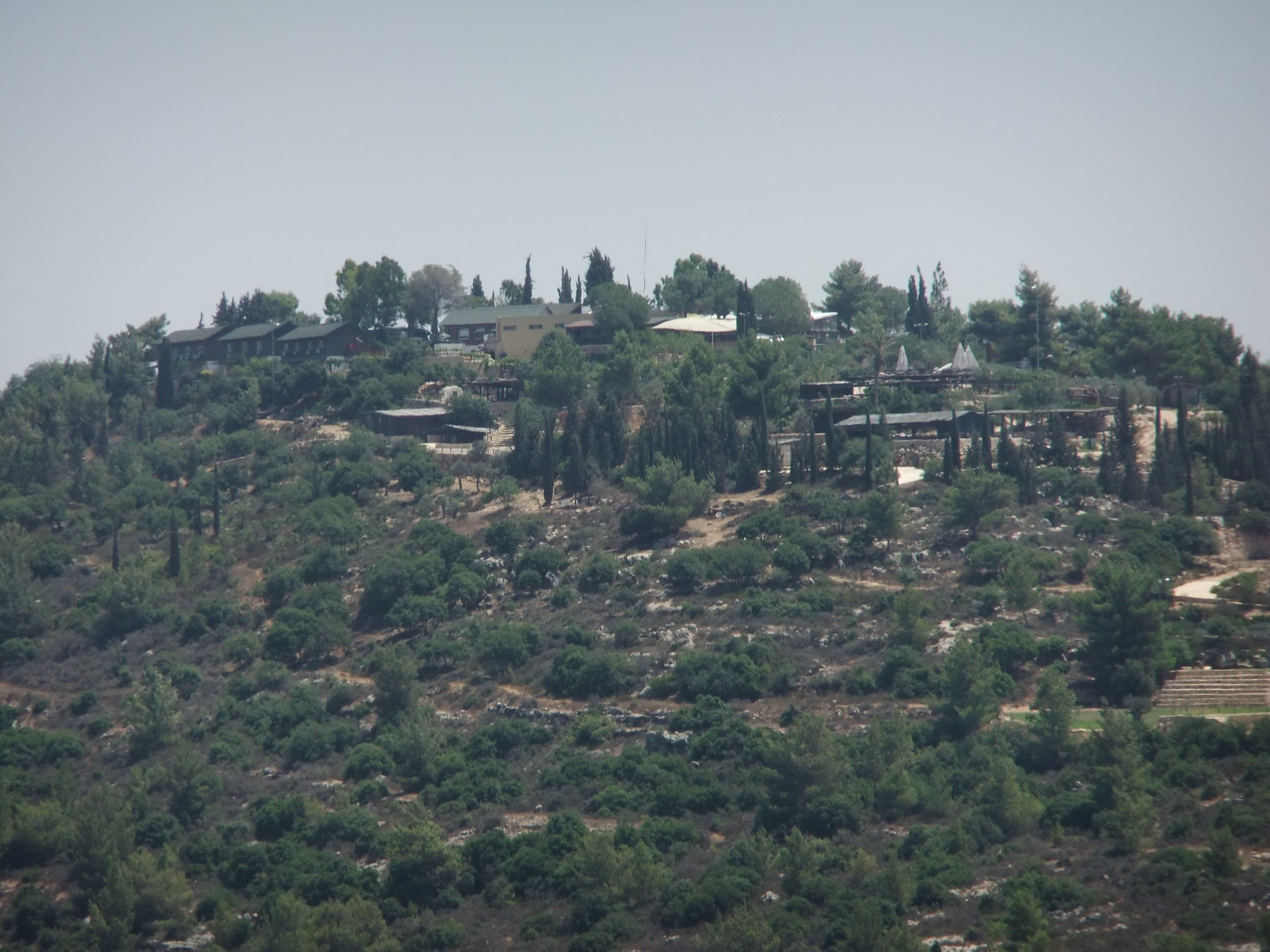 Yad Hashmona from a look out in the Harei Yehuda national park